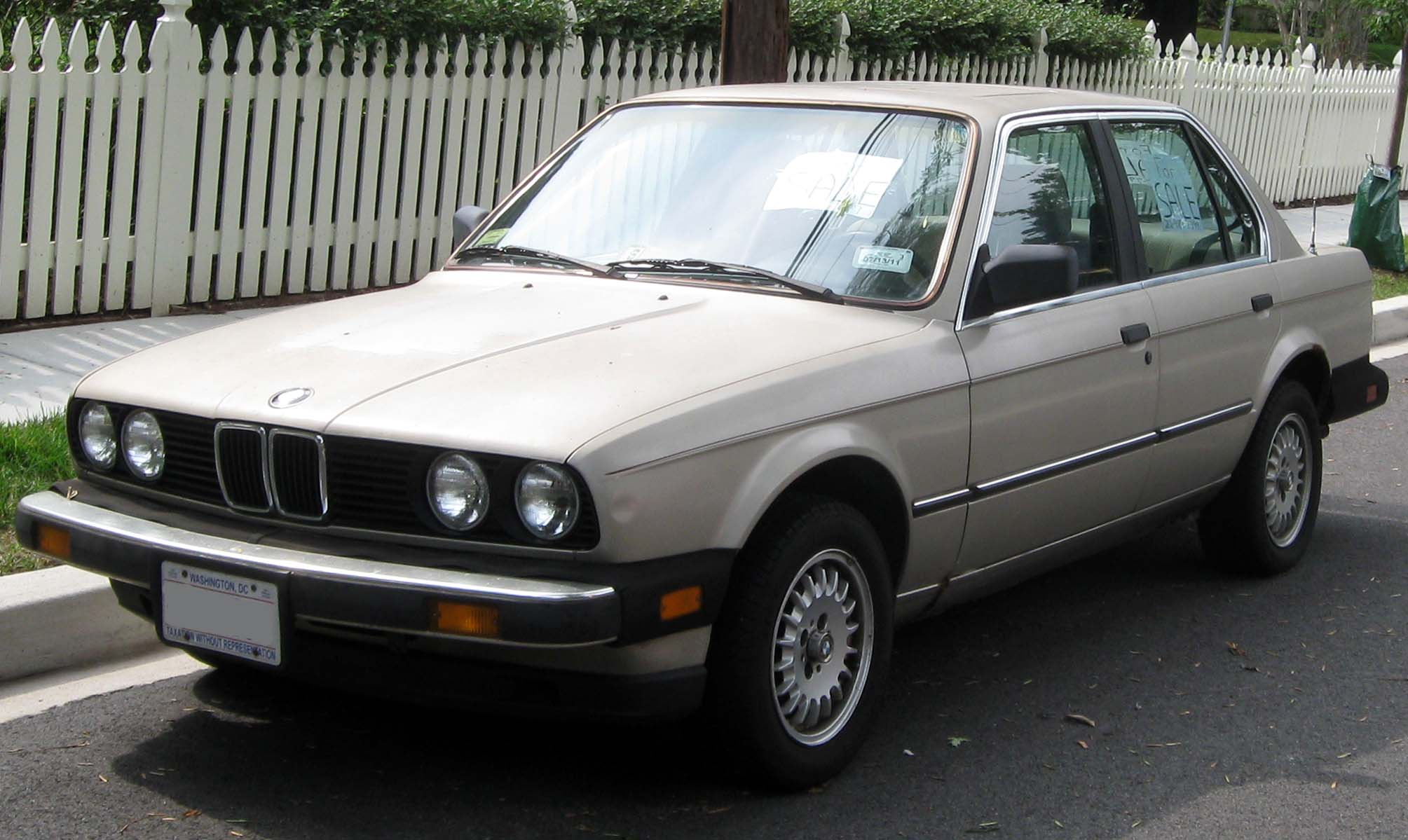 BMW 325e photographed in Washington, D.C., USA.